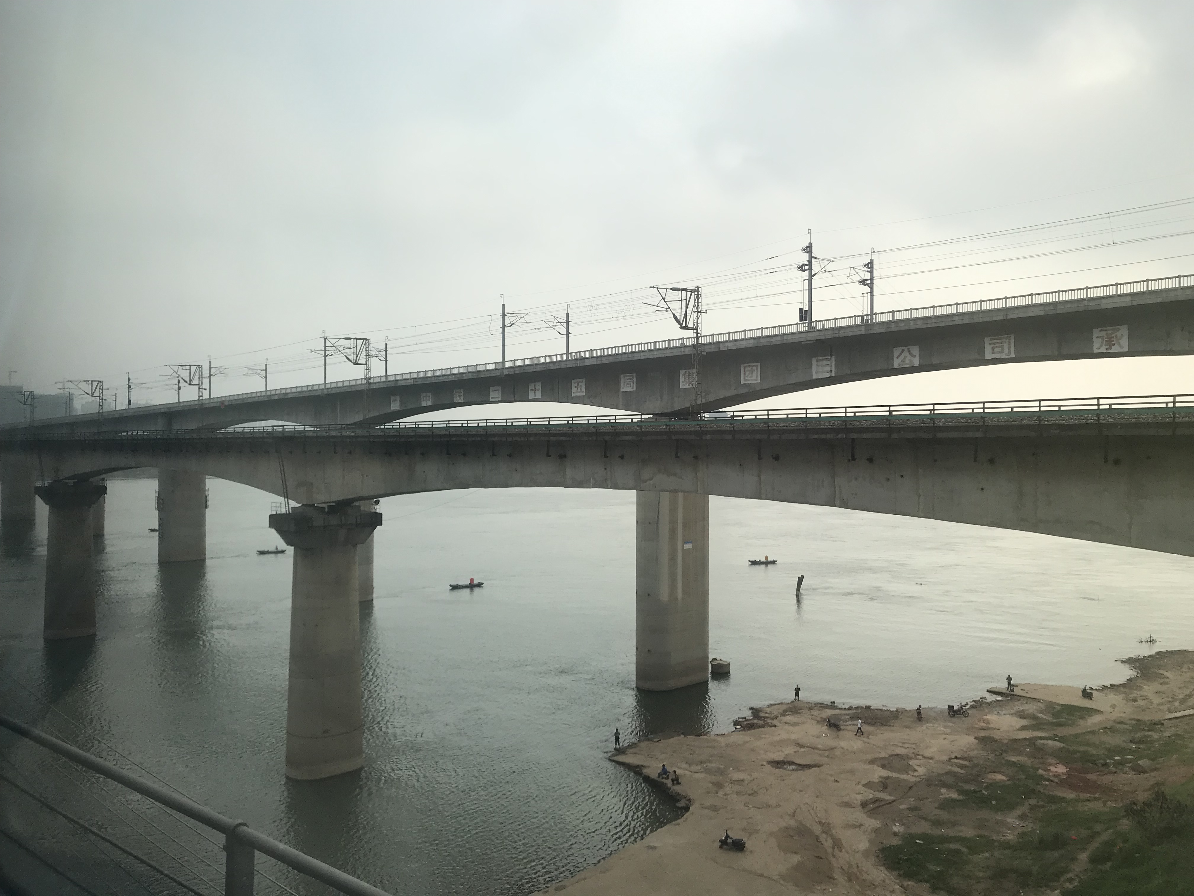 201908 Shanghai-Kunming Railway and Changsha-Zhuzhou-Xiangtan Railway over River Xiang